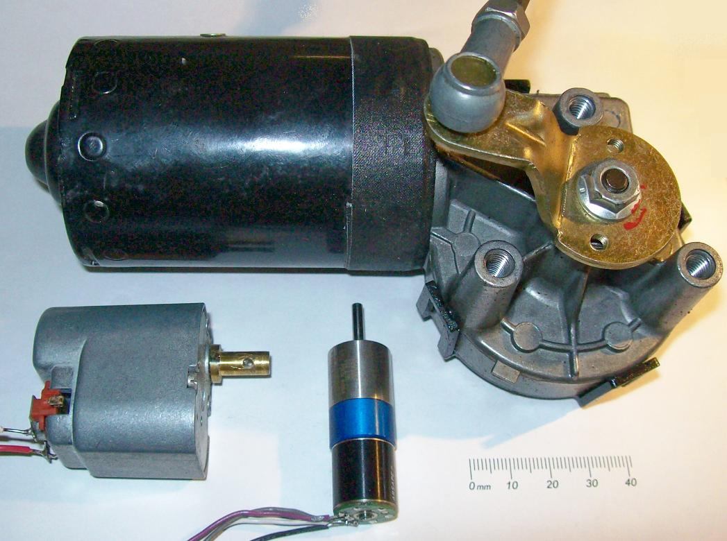 Gear motors, upper: worm gear (windscreen wiper drive); left: cogwheel gear; middle: planetary gear